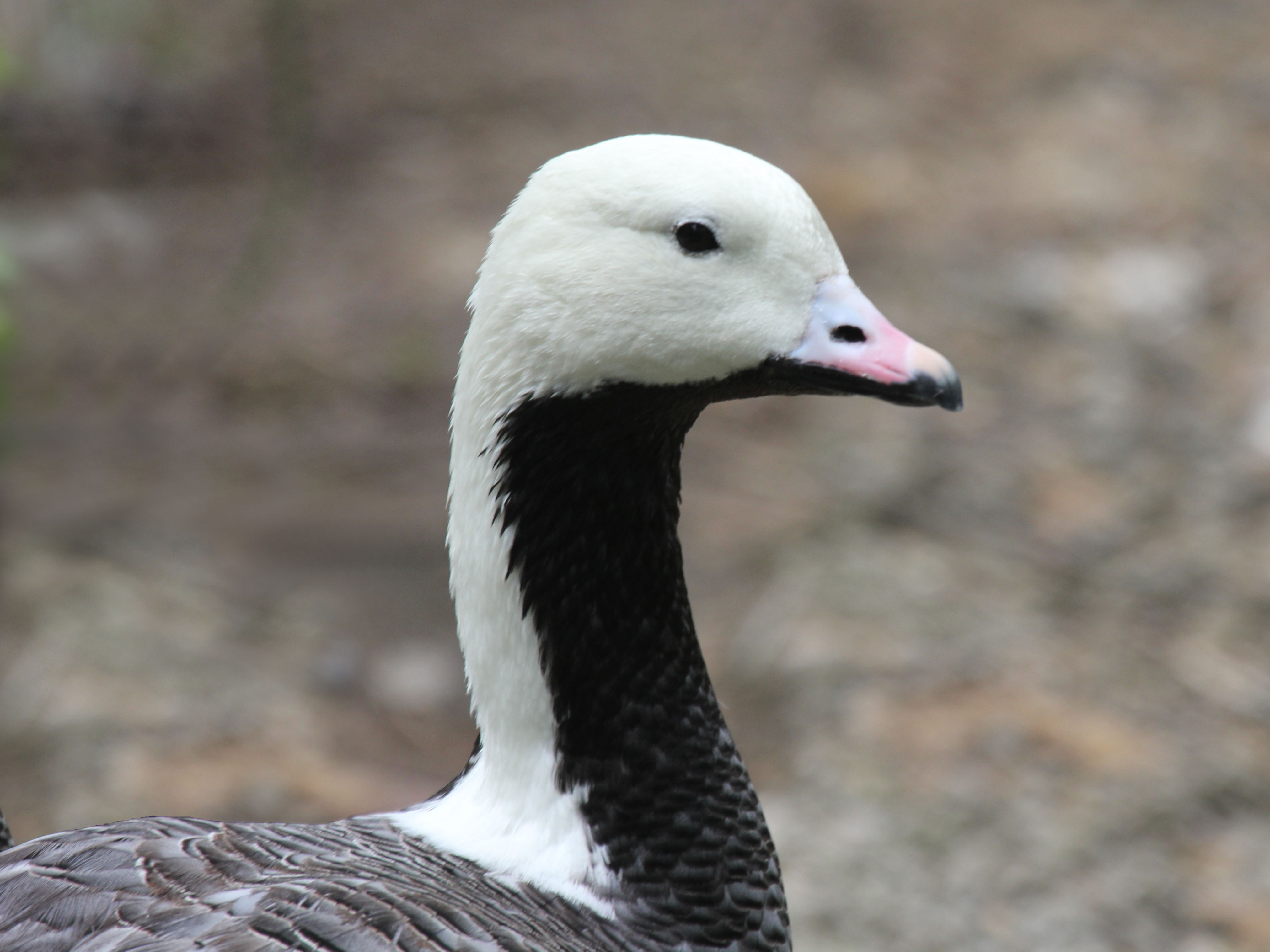 Emperor Goose (Chen canagica) - Sylvan Heights Waterfowl Park, Scotland Neck, North Carolina